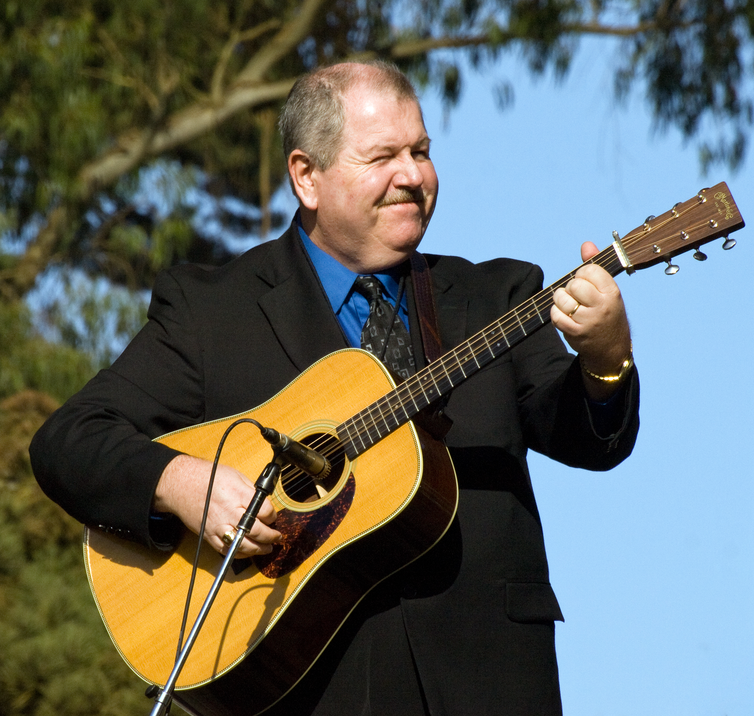 James Alan Shelton, performing with the The Clinch Mountain Boys in 2009.